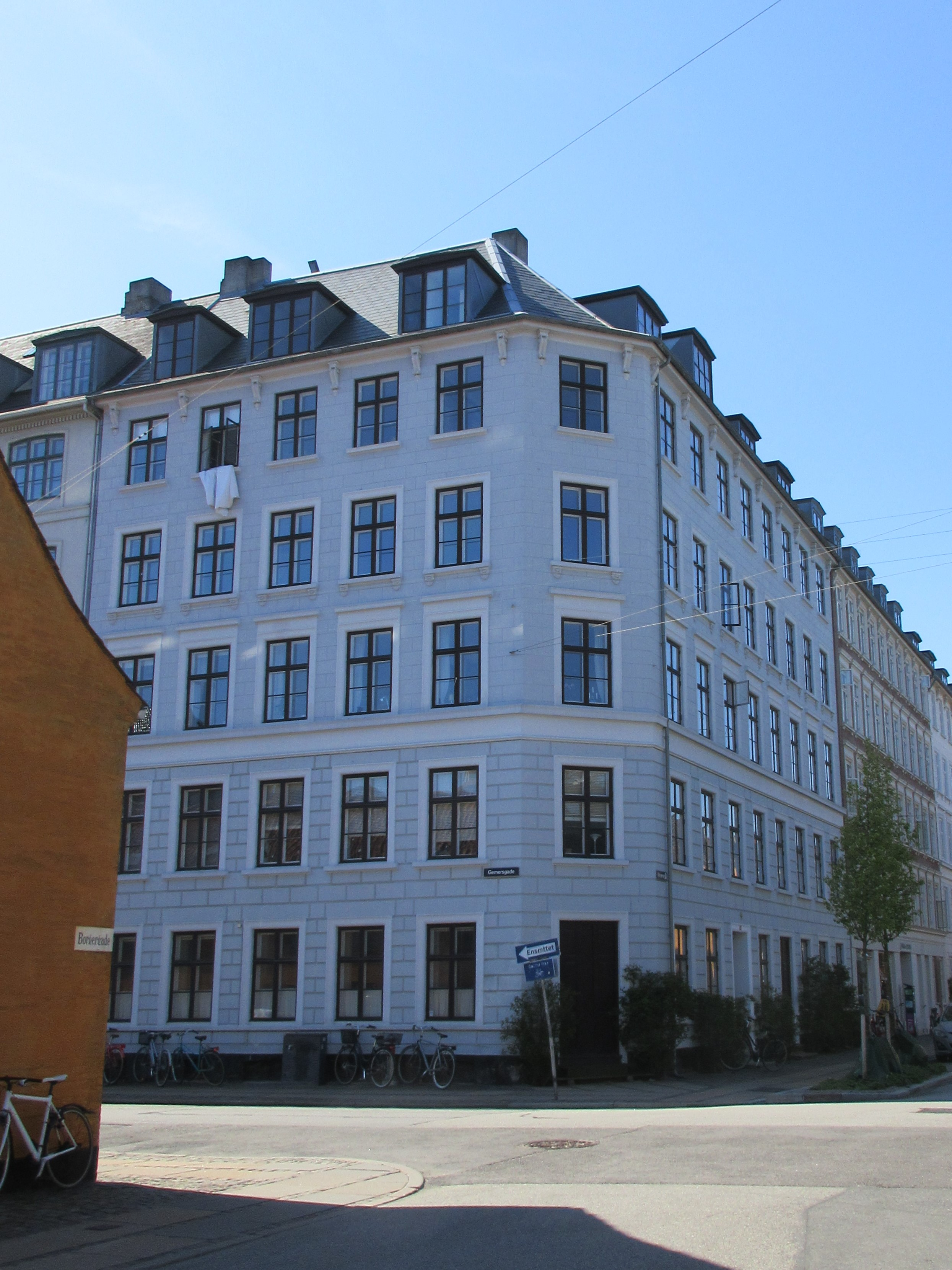 Borgergade 144 in Copenhagen, Denmark